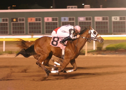 G. R. Carter aboard record setting Paint Horse Got Country Grip